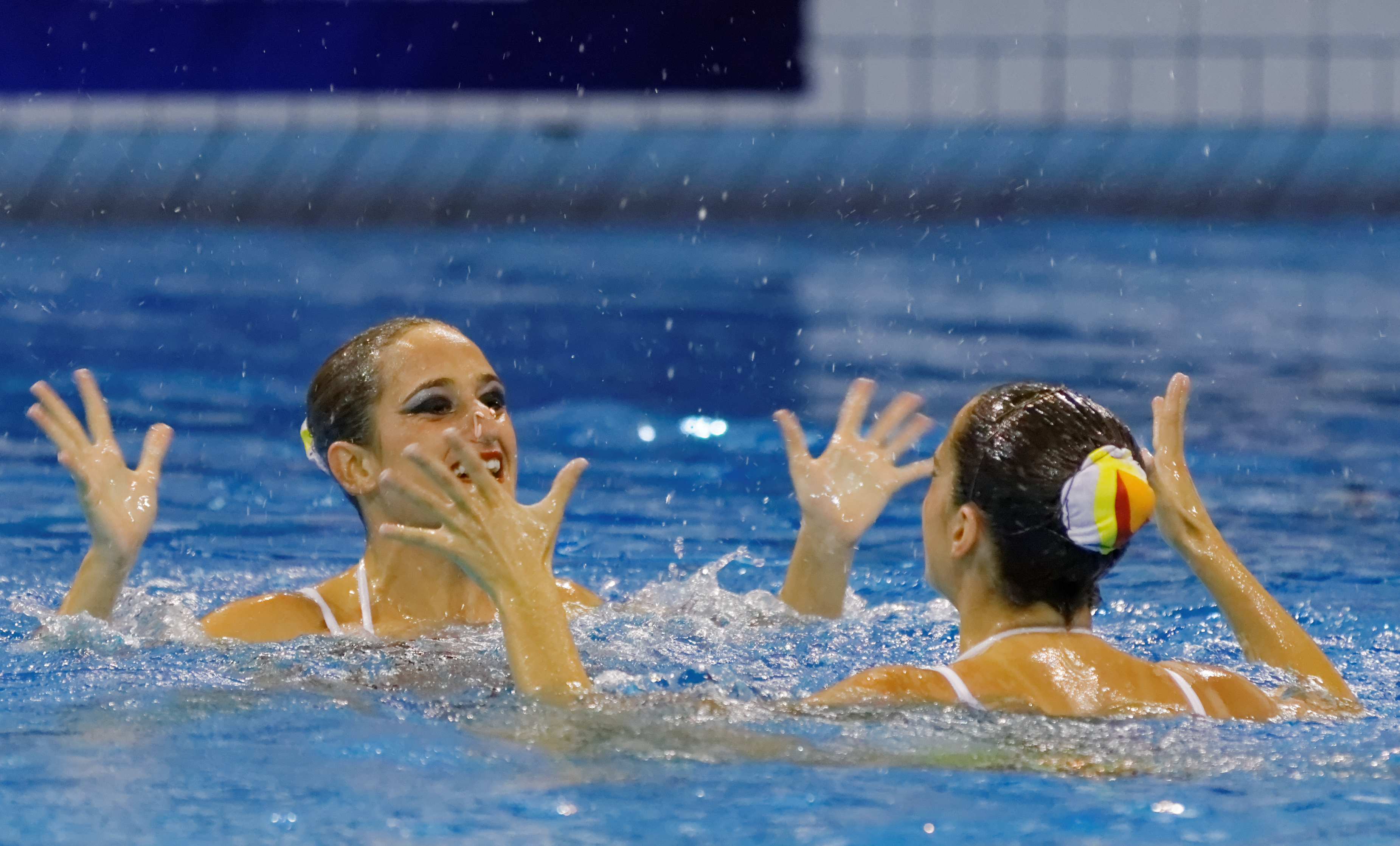 Etel Sanchez and Sofia Sanchez, duet free routine (final), Open Make Up For Ever.